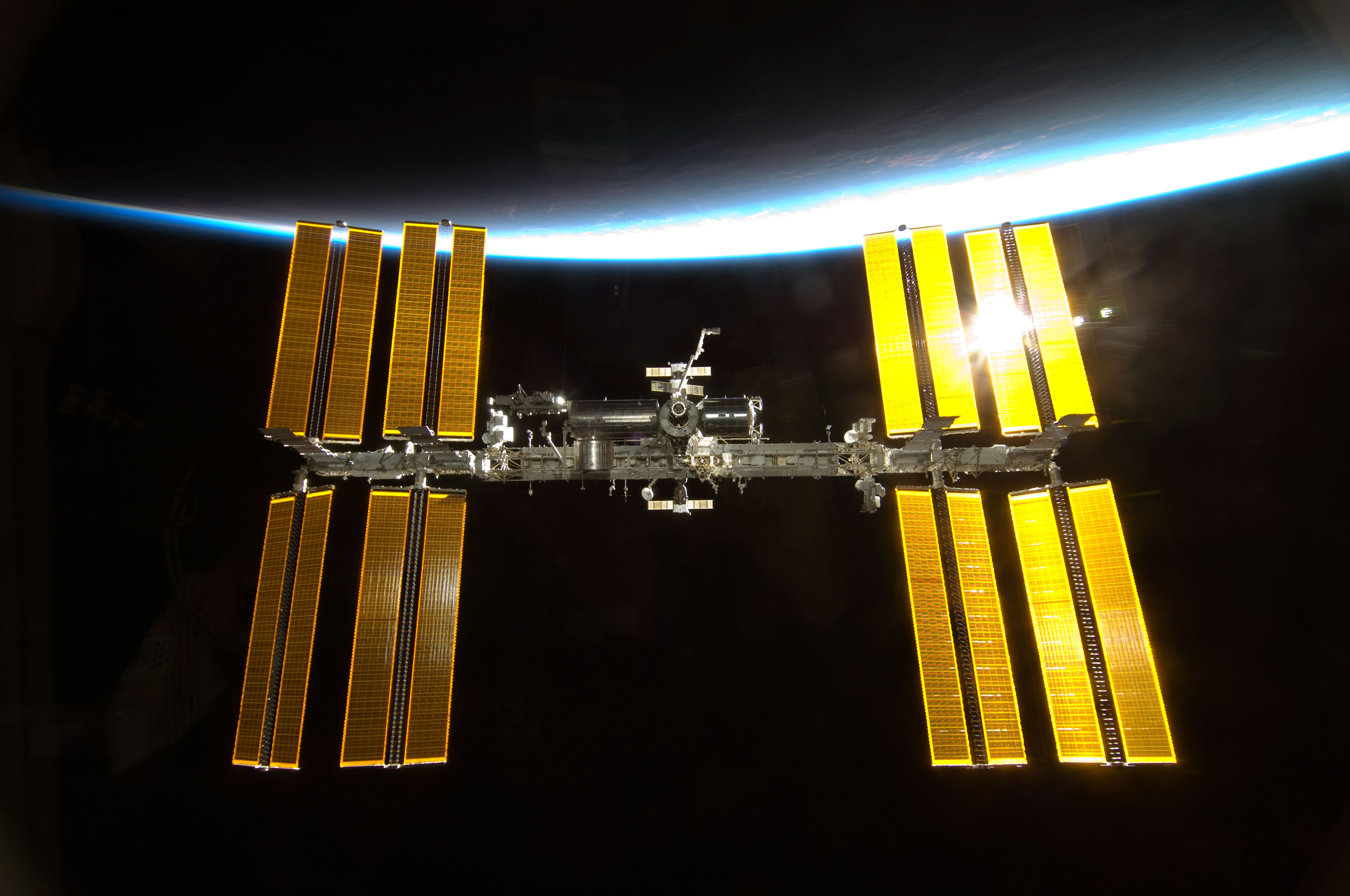 The International Space Station seen from Space Shuttle Endeavour was photographed during the STS-130 in February 2010.